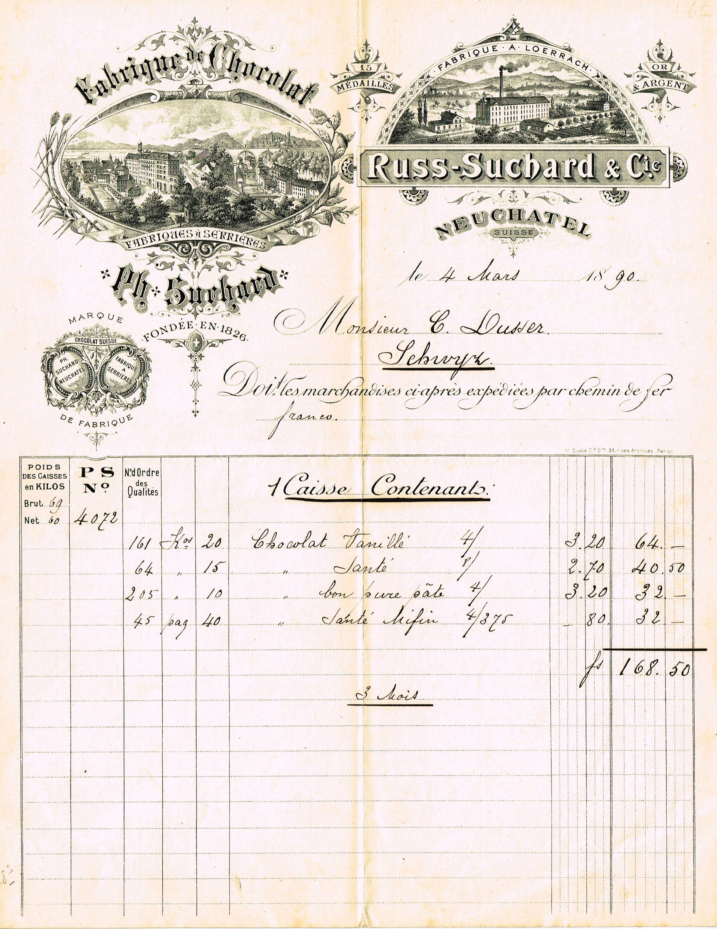 Caisse Contenants of the Russ-Suchard & Cie, issued 4. March 1890